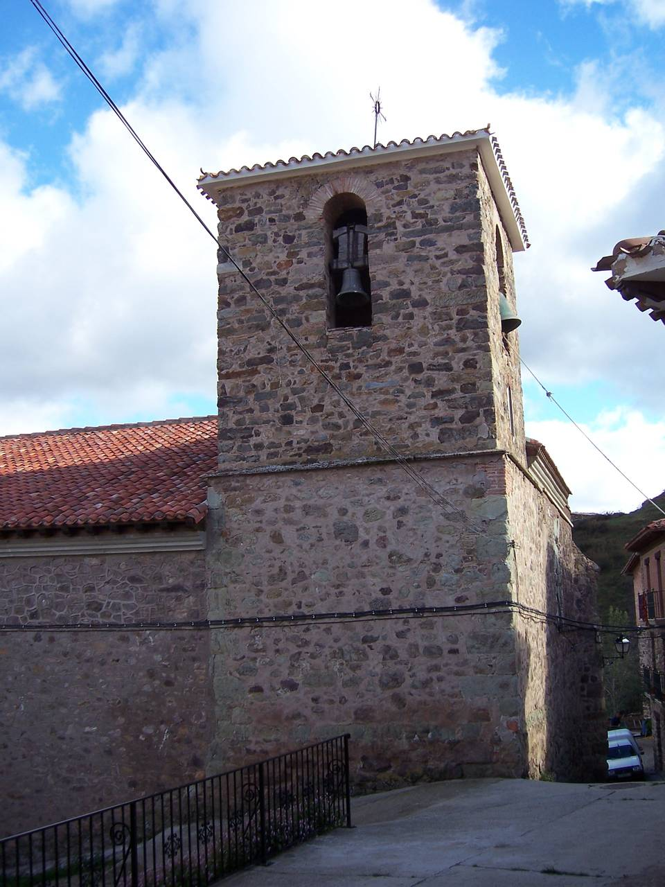 Church of Ajamil